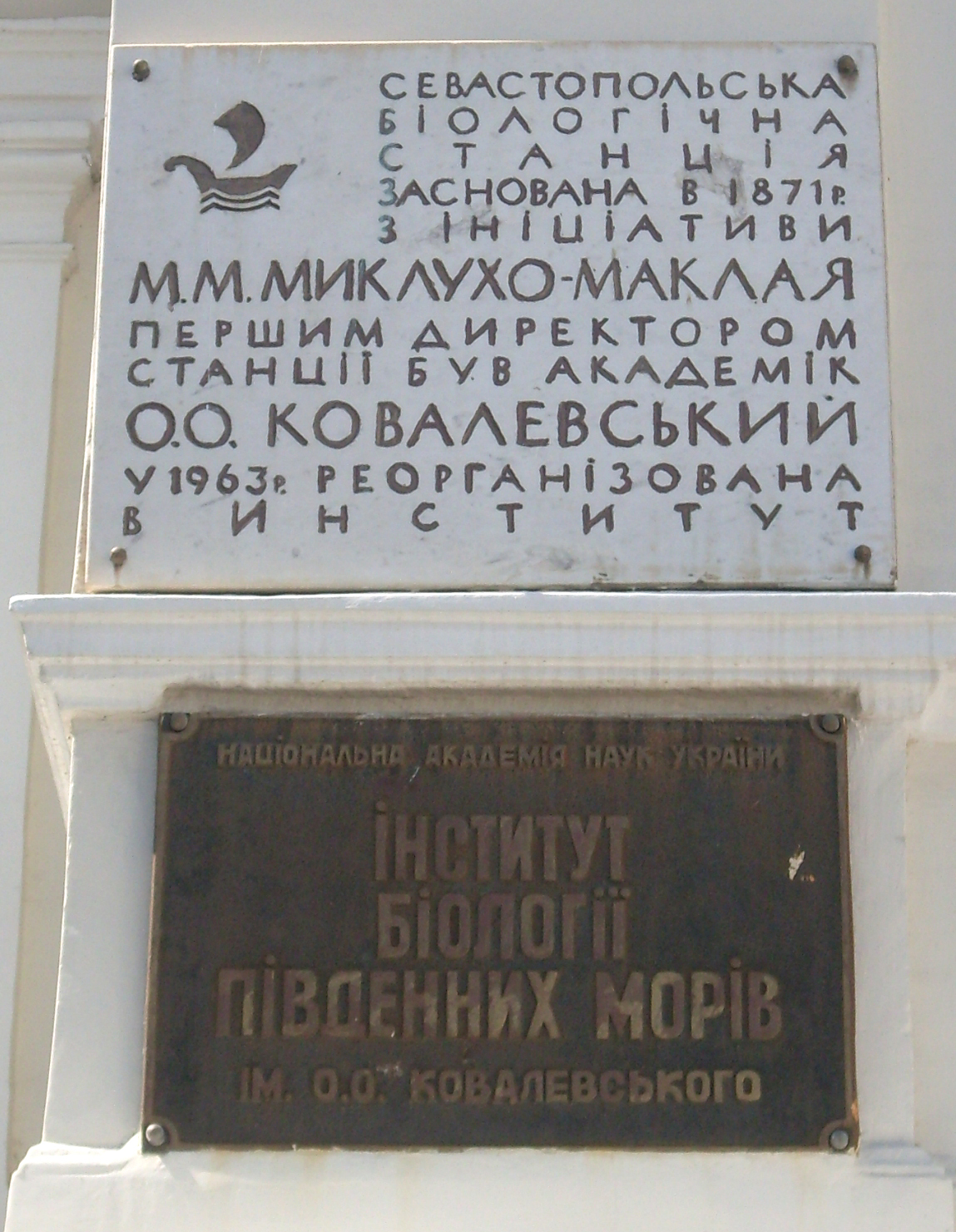 The Signboard of the Sevastopol Biological Station